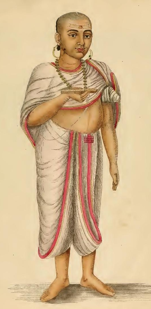 Smartha Brahmin man from Tamil Nadu